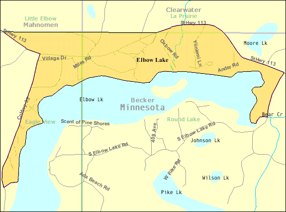 Map of Elbow Lake, a census-designated place in Becker and Clearwater counties in the northern part of the U.S. state of Minnesota.